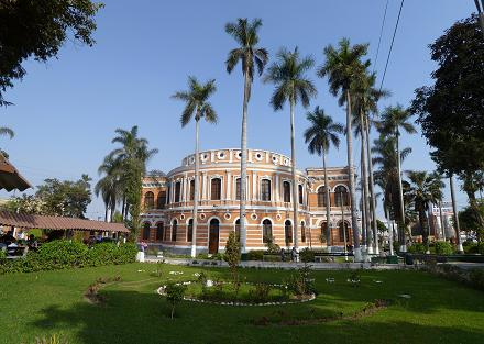 Facultad de Medicina San Fernando UNMSM. Facultad de Medicina San Fernando UNMSM, Facultad de Medicina San Fernando UNMSM, Lima, Peru.